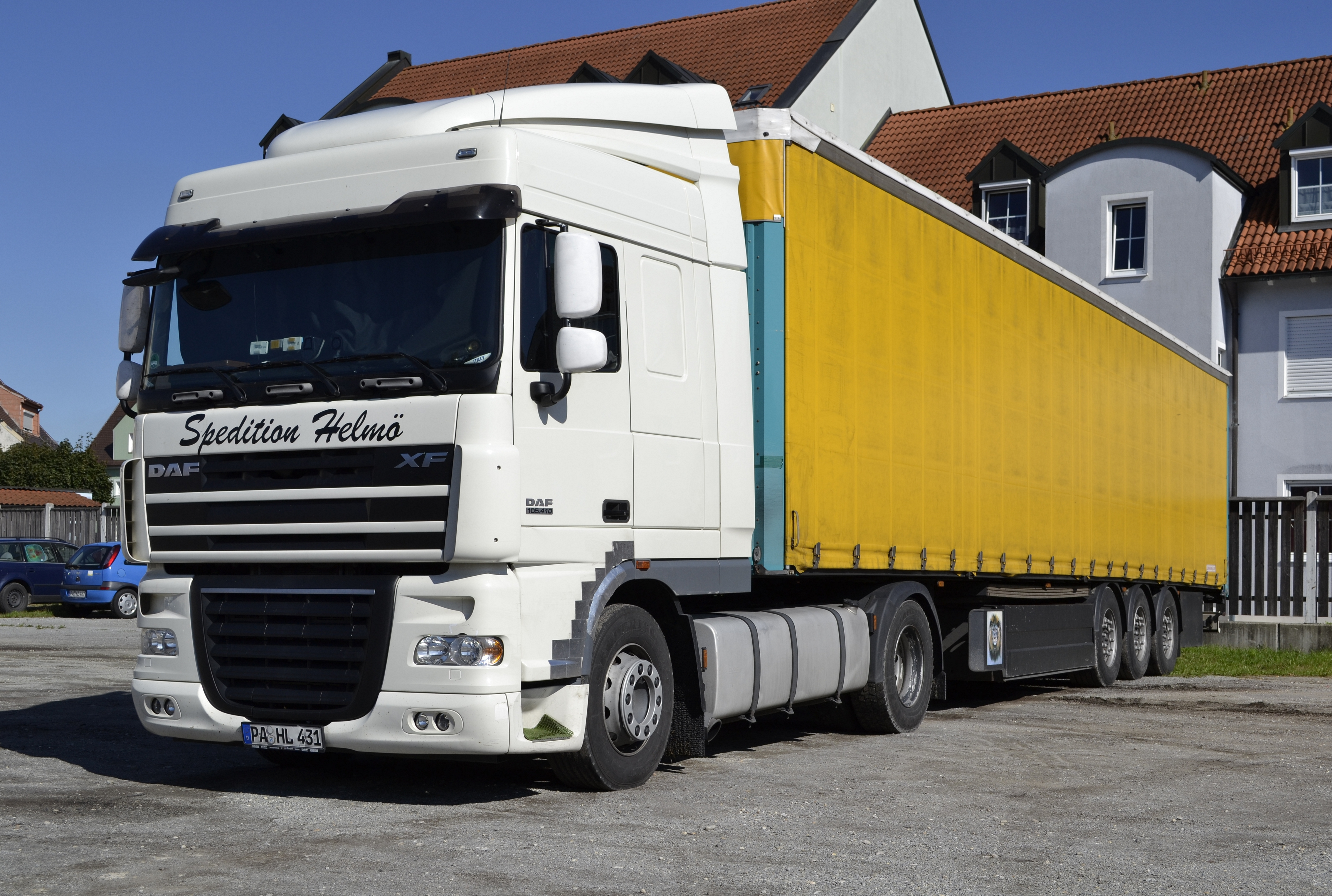 DAF XF 105.410 truck in Bavaria, Germany.